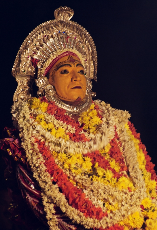 Chamundi Daiva